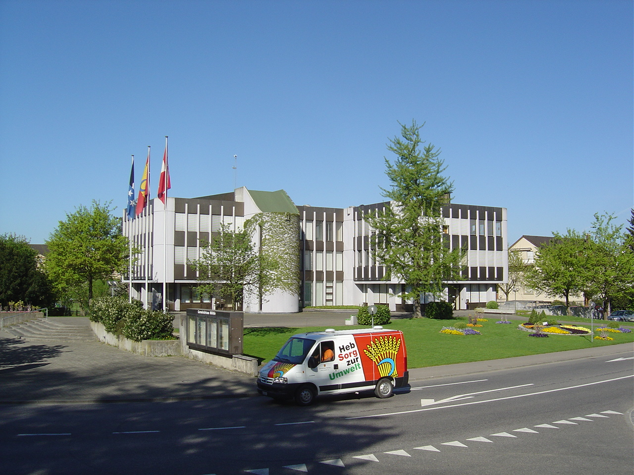 Building of the local administration of Möhlin (town hall)